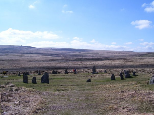 Scorhill Stone Circle, Dartmoor, Devon, U.K. Features me petting my dog, Bella.